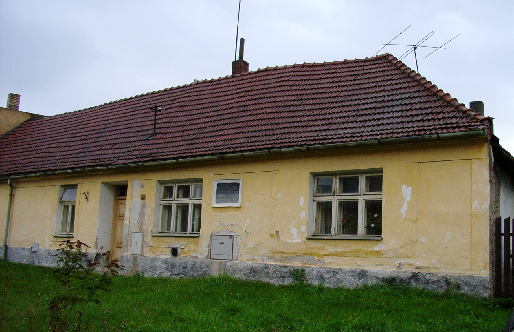 Birth house of Václav Filípek in Veselí nad Lužnicí.